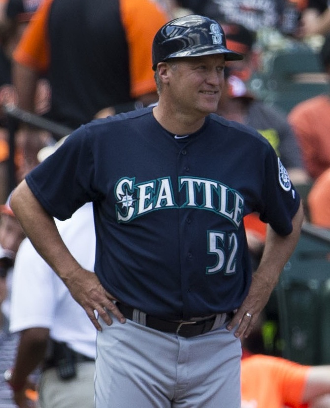 Seattle Mariners 3rd base coach Daren Brown.